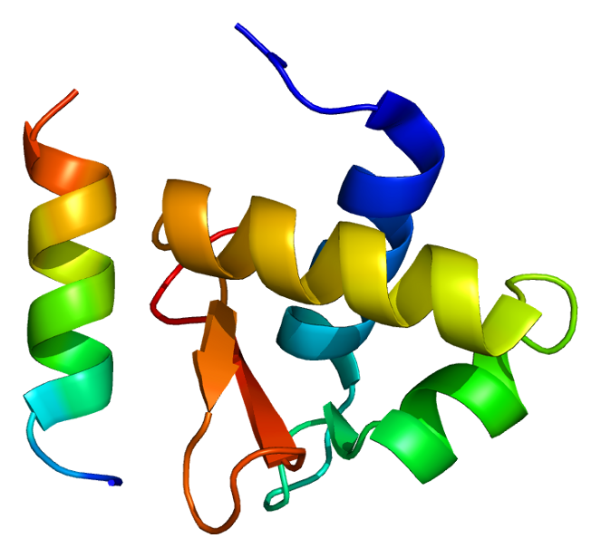 Structure of the RPA2 protein. Based on PyMOL rendering of PDB 1dpu.